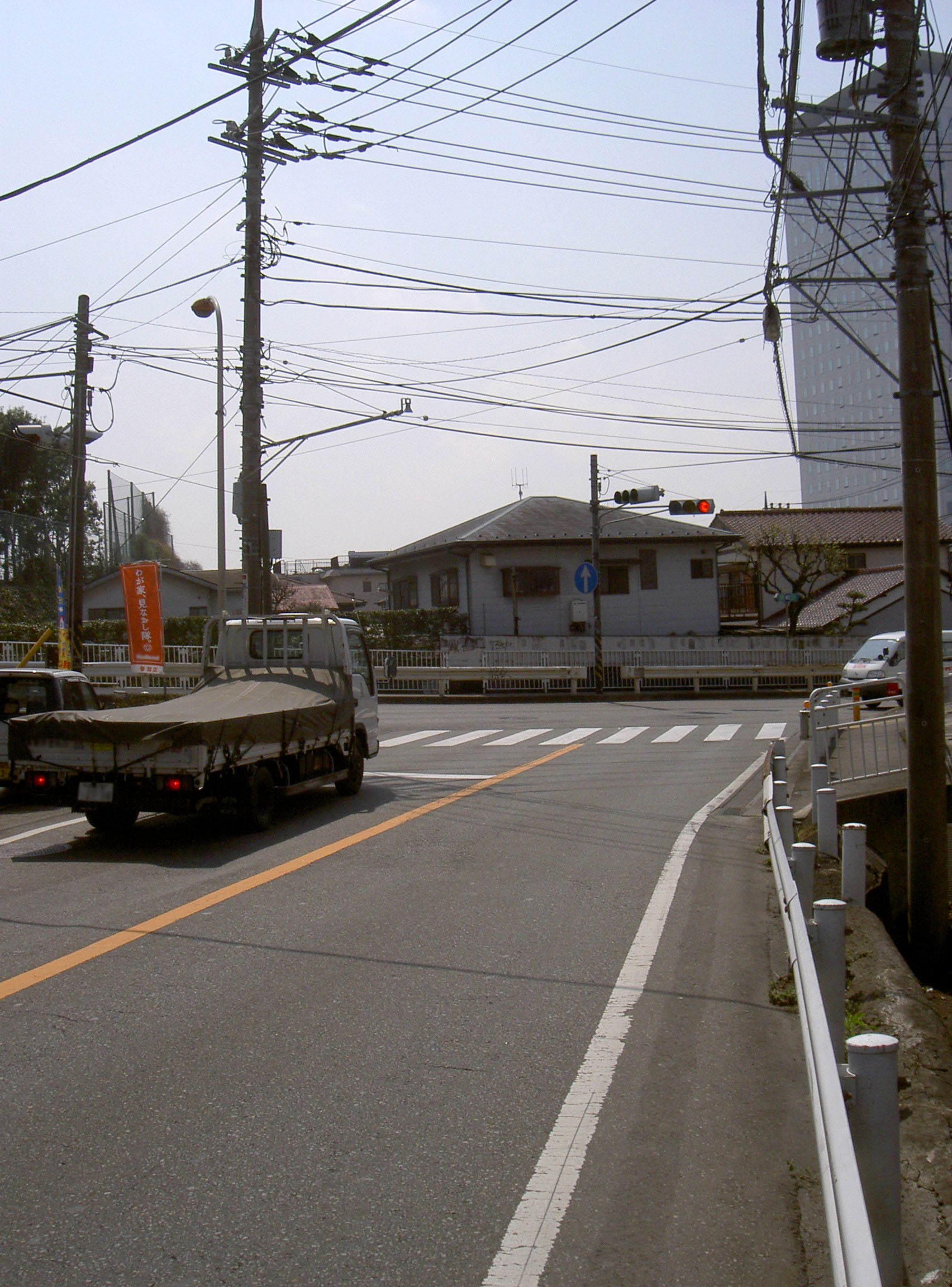 Kanagawa prefectural road route 40 in Ebina city ja: 神奈川県道40号横浜厚木線